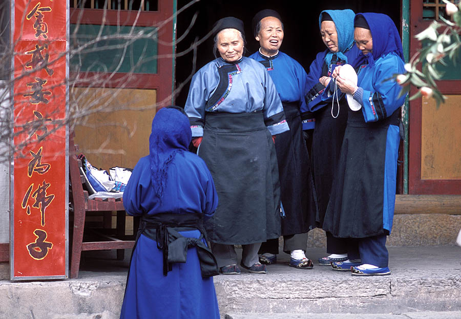 A small group of southern Han Chinese in Guizhou Province still retaining their daily attire in Ming Dynasty (14th-17th century) style due to the relative geographical isolation and the strong adherence to traditional culture.